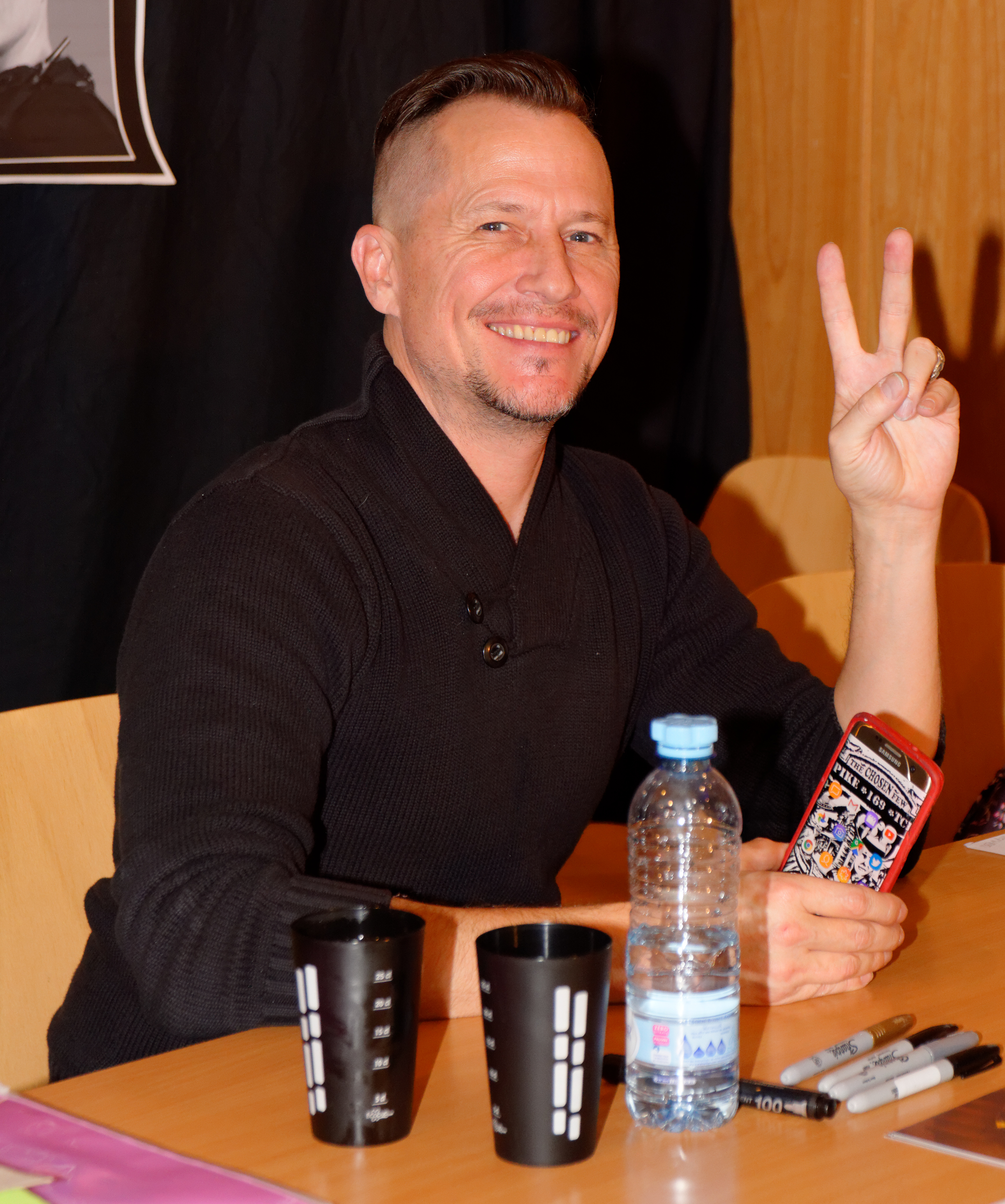 Personality rights warningAlthough this work is freely licensed or in the public domain, the person(s) shown may have rights that legally restrict certain re-uses unless those depicted consent to such uses. In these cases, a model release or other evidence of consent could protect you from infringement claims.